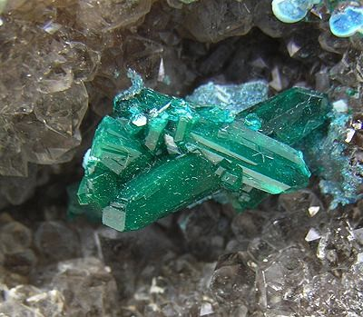 Dioptase, Shattuckite, Quartz Locality: Sanda Mine, Mindouli, Pool Region, Republic of Congo (Brazzaville) (Locality at ) Size: 7.5 x 6.4 x 4.4 cm. A fascinating AND pretty copper-mineral combo from Congo. On the side of a shallow pocket, on a layer of shiny smoky quartz crystals, is a cluster of superb dioptase crystals (the long one measures 1.8 cm) in the form of a cross. The isolation of this cluster makes it really jump out at you - MUCH more so than in the photos! Nearby are patches of rare shattuckite (Copper Silicate Hydroxide), with turquoise-blue color.